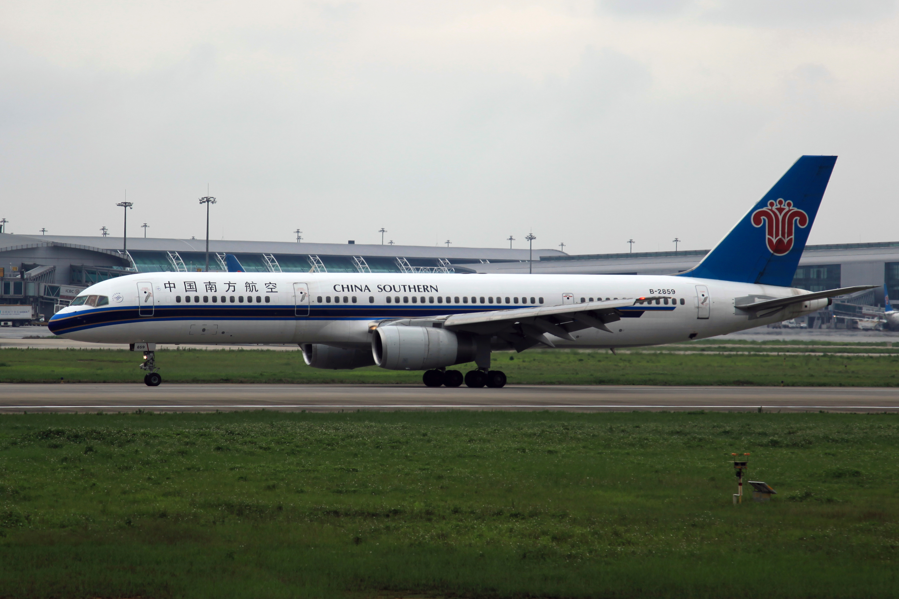 China Southern Airlines Boeing 757-28S B-2859 @ Guangzhou Baiyun International Airport